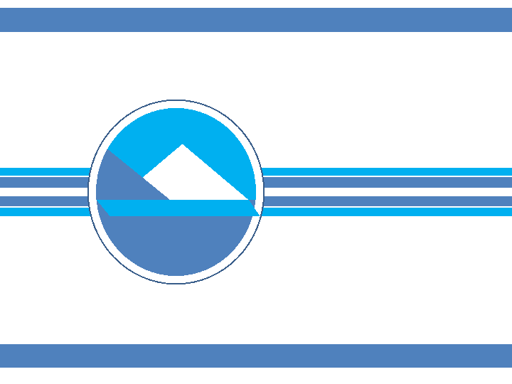 Flag of Puerto Varas commune, in Chile.